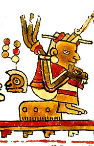 Seis Mono-Quexquémitl de Guerra, señora de Xaltepec y de Lugar del Bulto de Xipe. Representación suya en la lámina 6 del Códice Selden, de autor anónimo de la Mixteca (México), a mediados del siglo XVI.